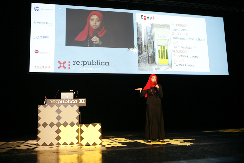 Egyptian blogger Noha Atef on re:publica 2011 in Berlin